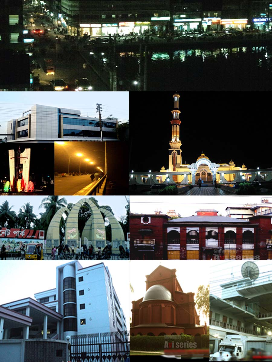 Some snaps from different area of Barisal